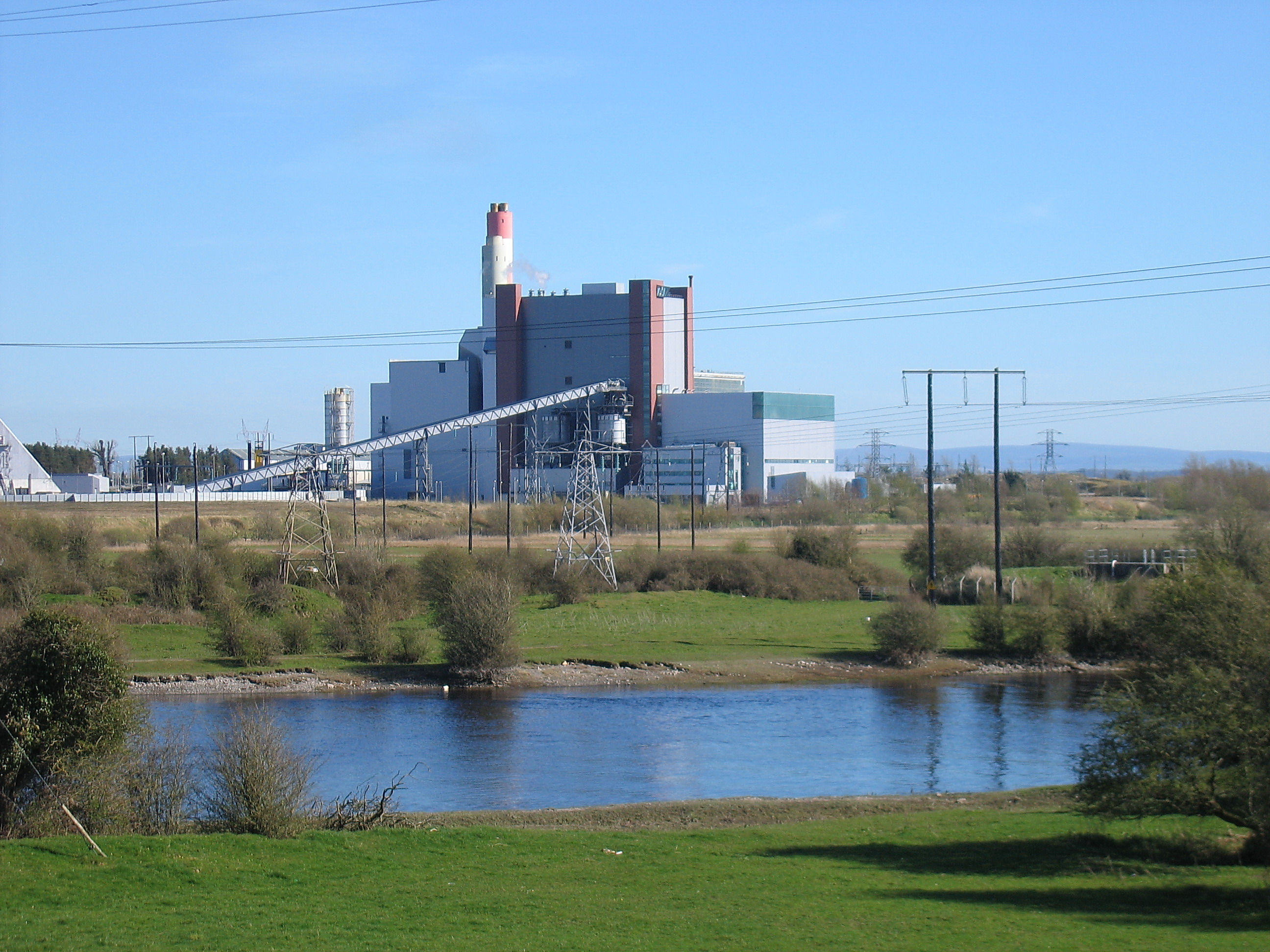 Photo of "West Offaly" peat-fired power plant in Shannonbridge, County Offaly, Ireland, with the River Shannon in the foreground